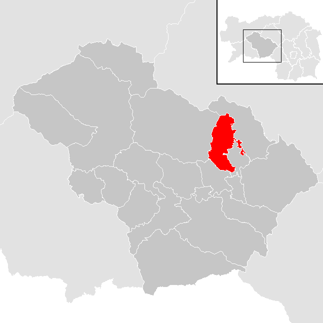 district Murtal in Styria, Austria